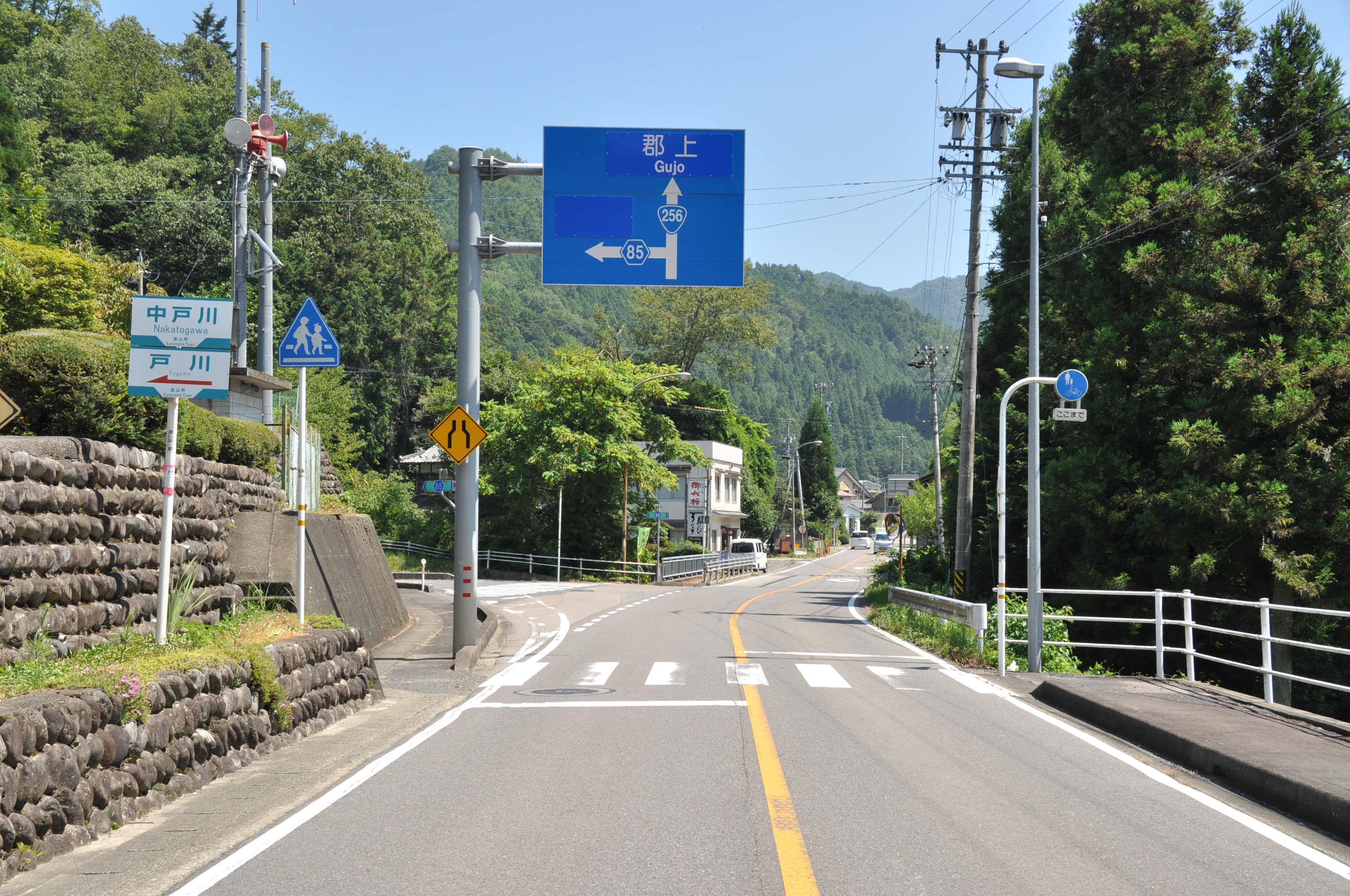 Crossing point of the Gifu Prefectural Road 85 and National Route 256